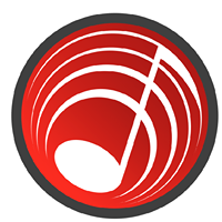 Talence Symphony Orchestra's Logo